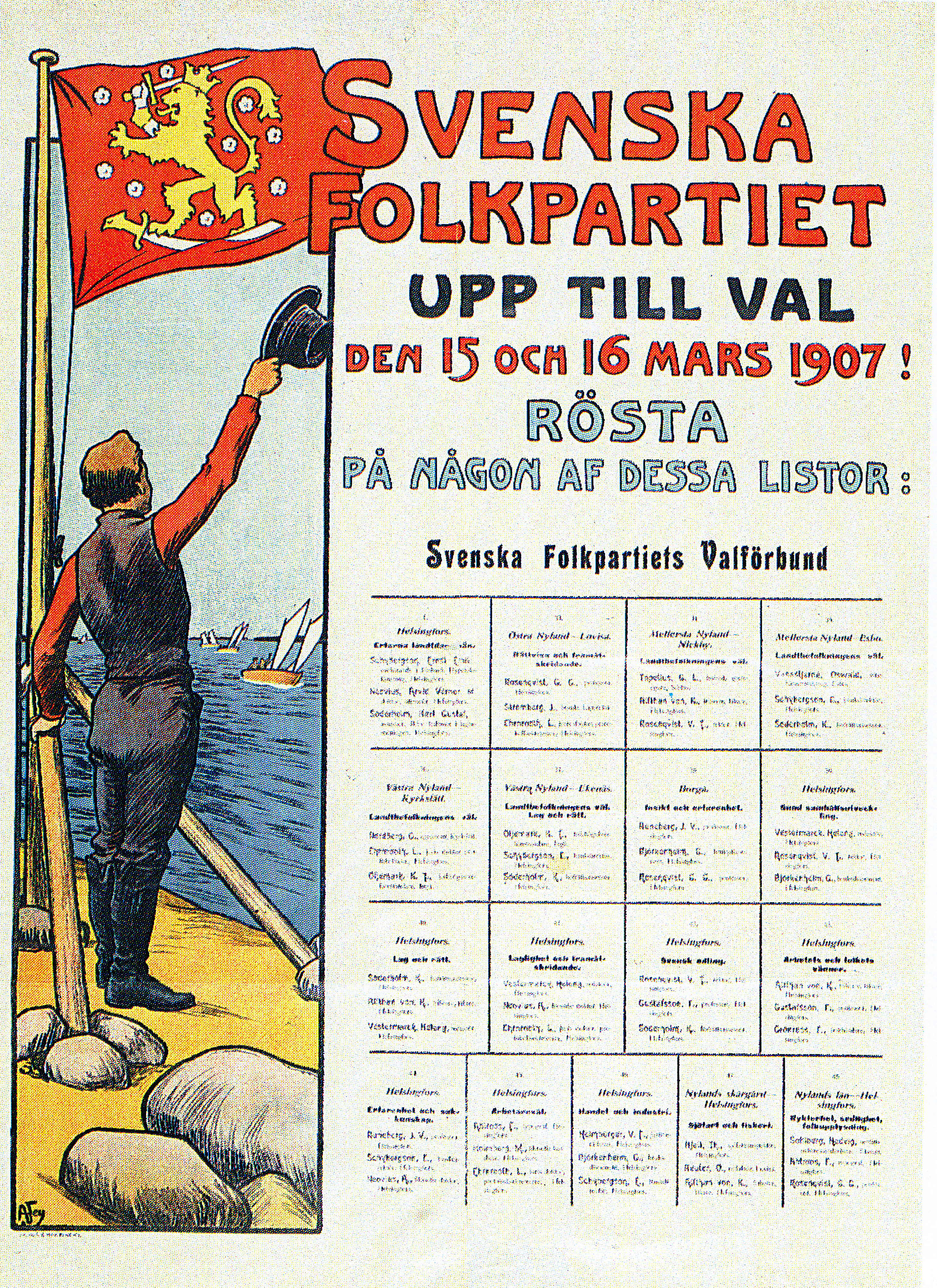 Original election poster of Swedish People's Party of Finland.